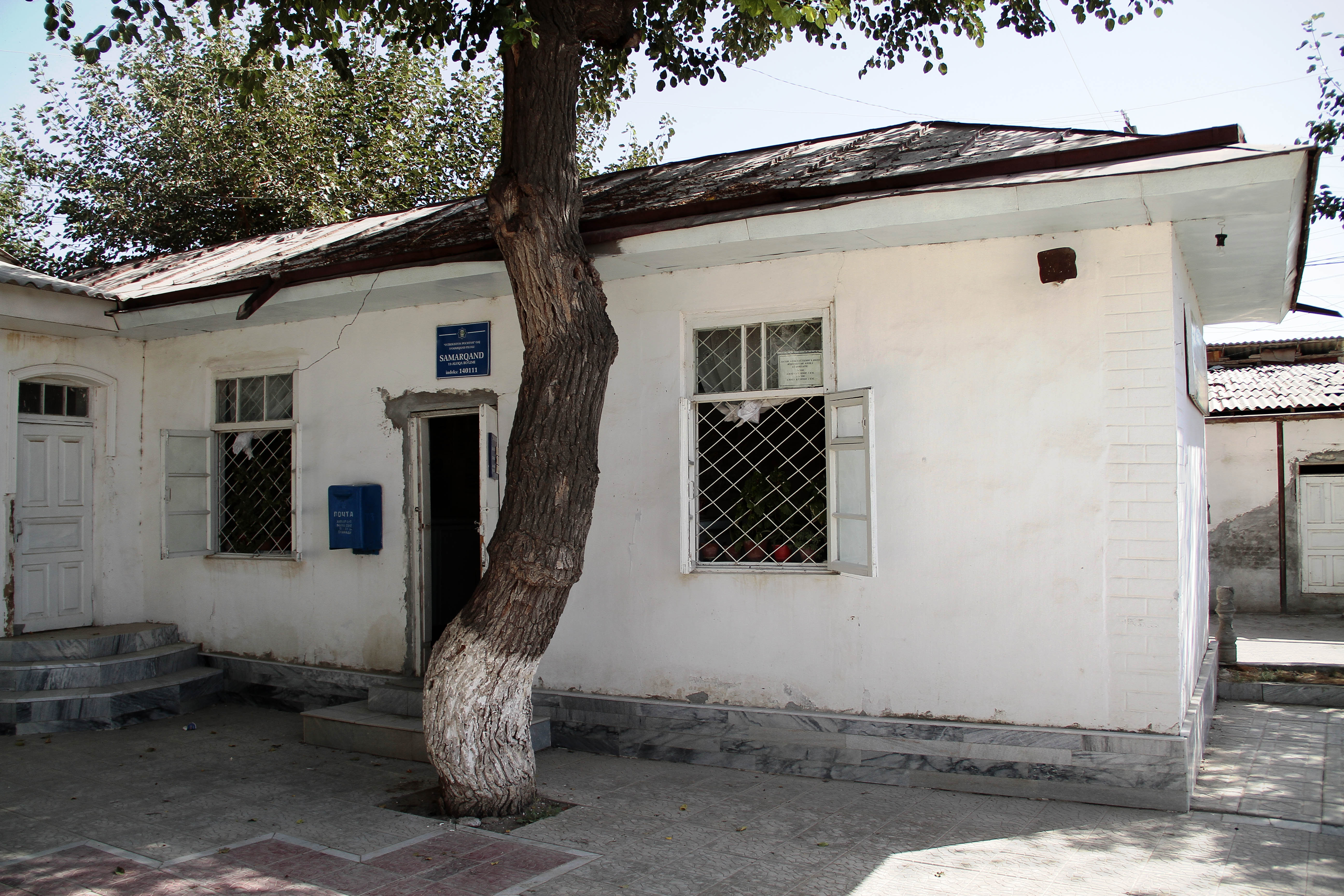 Post Office in Samarkand